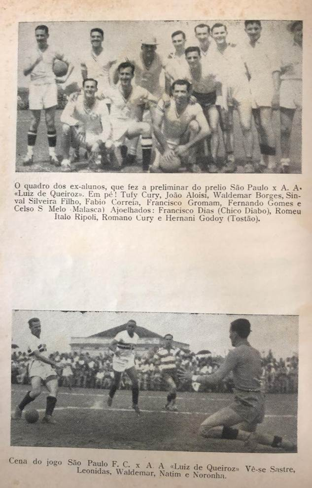 Ripoli at ESALQ.